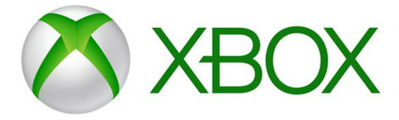 Xbox Live